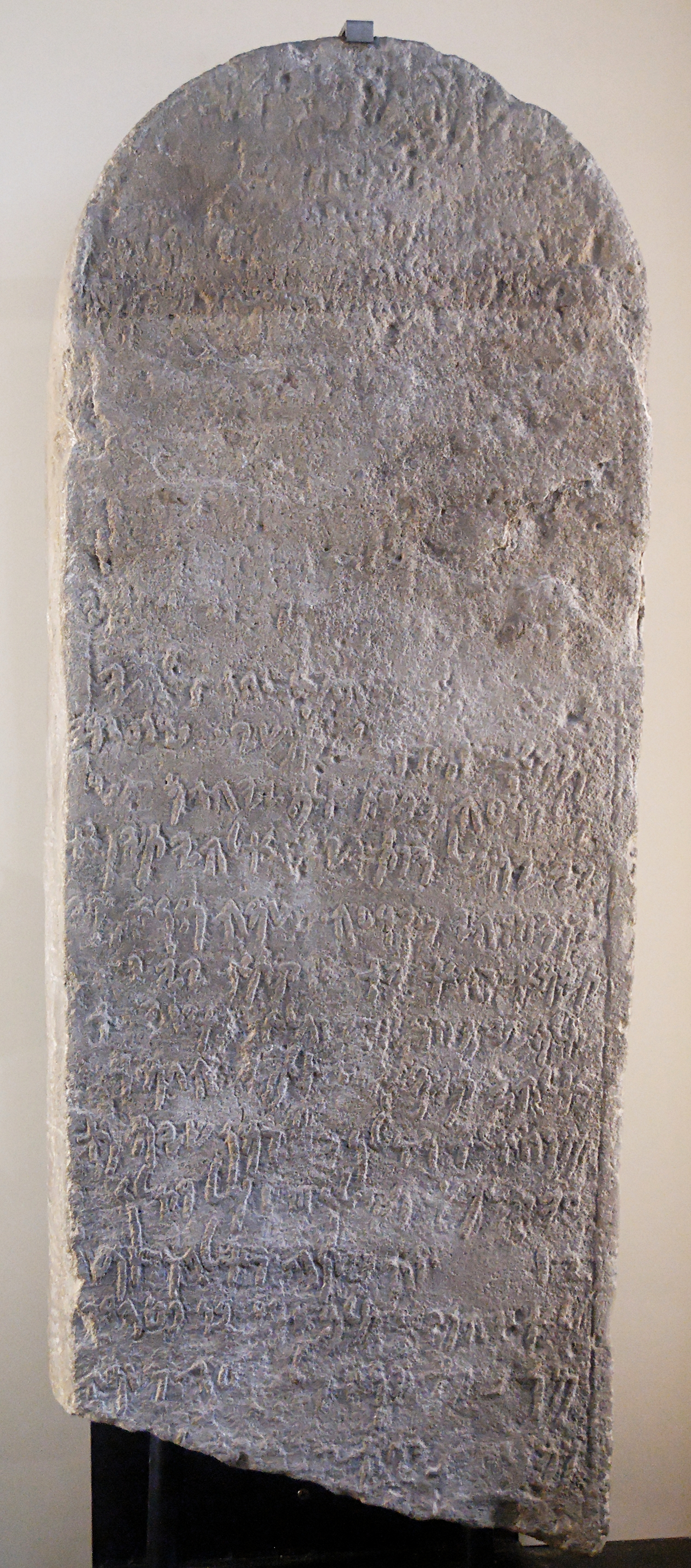 So-called “Teima Stone”. Aramaic inscription relating the introduction into Teima of the worship of a new divinity, Salm of Hagam, and the appointment of his priest, Salm-Shezib bar Pet-Osiris. Sandstone, 6th century BC. Found in Teima, Northwestern Arabia.